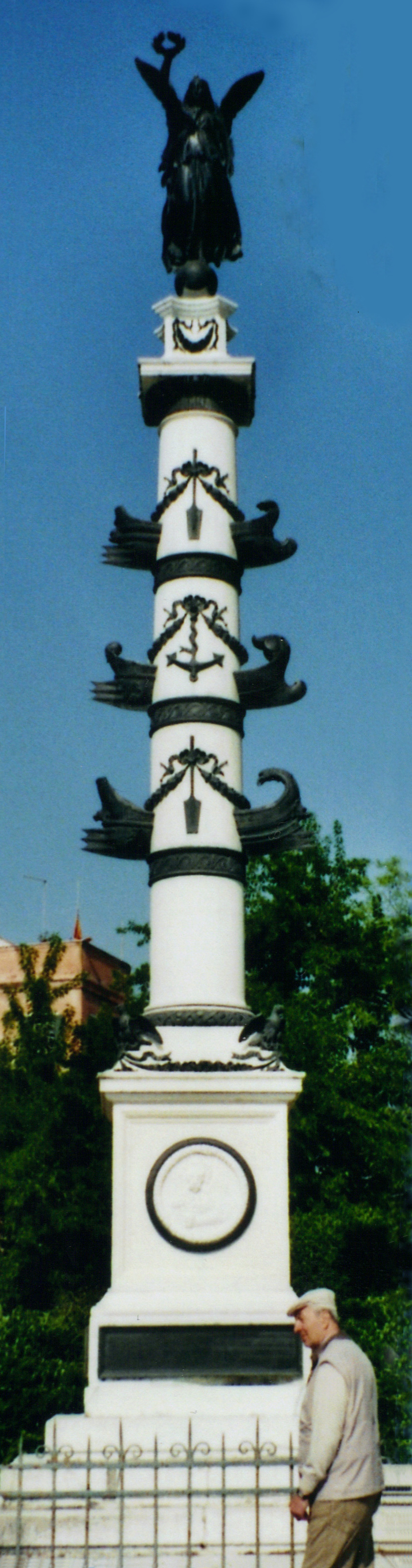 Rostral column erected for Archduke Ferdinad Maximilian, the late emperor Maximilian of Mexico, by the Austrian Navy in 1876 (Max was its former commander in chief). Artist Heinrich von Ferstel. The column originally stood in Pola, Austria's main military harbour, but was transferred in 1919 to Italy (Venice, Giardini)